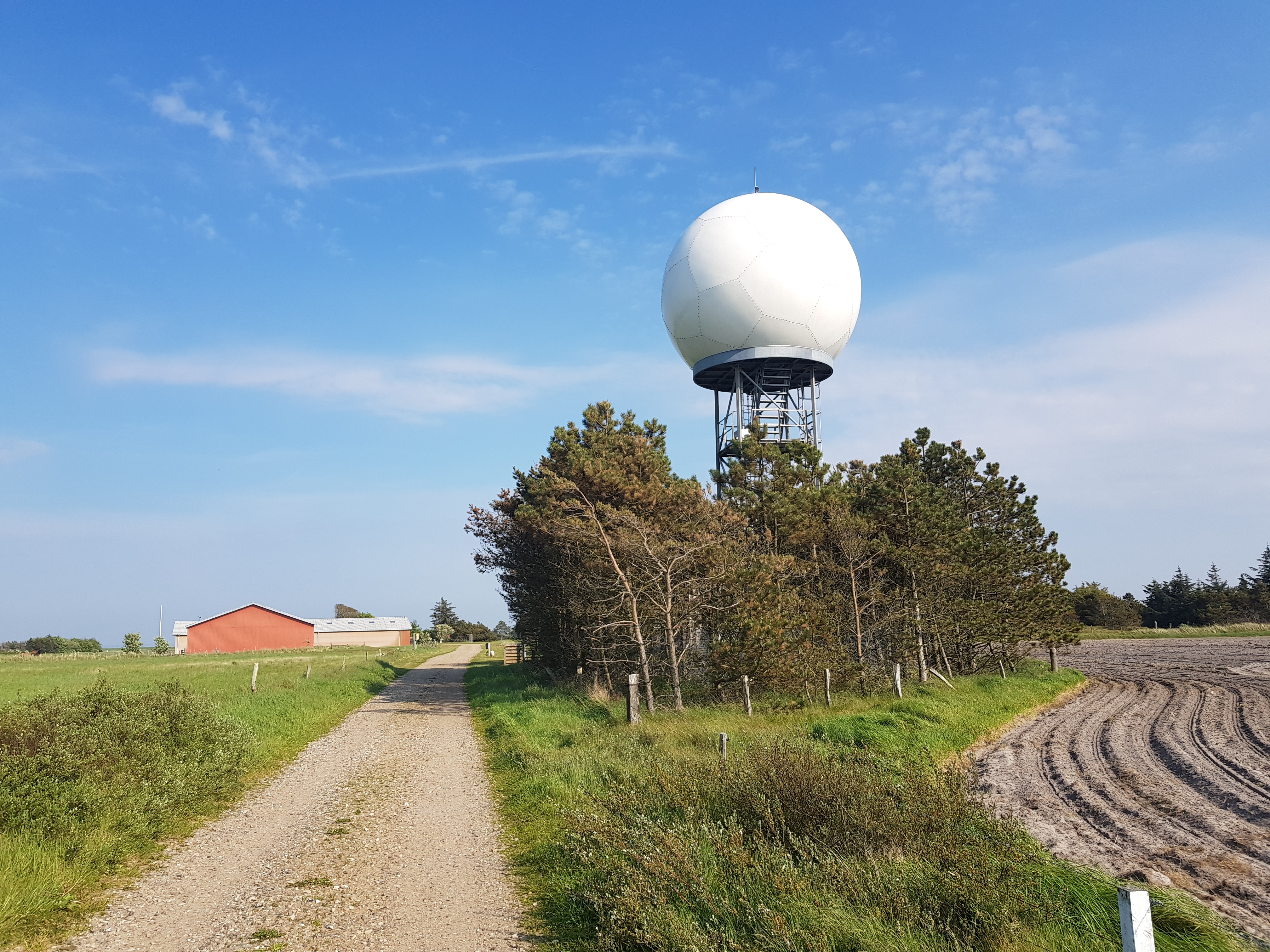 One of 5 weather radars operated by the danish meteorological Institure is located at Juvre on the island Rømø